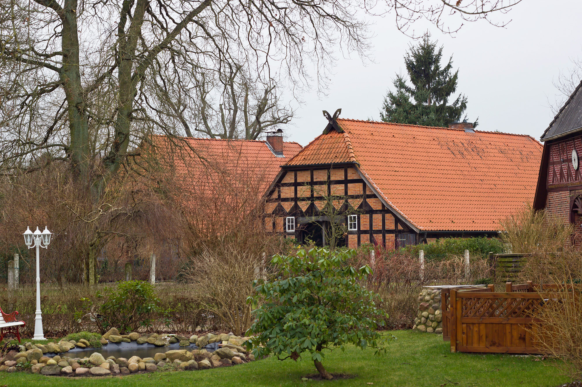 Old center of the village Karwitz near Dannenberg (Elbe), with modernized residential buildings.